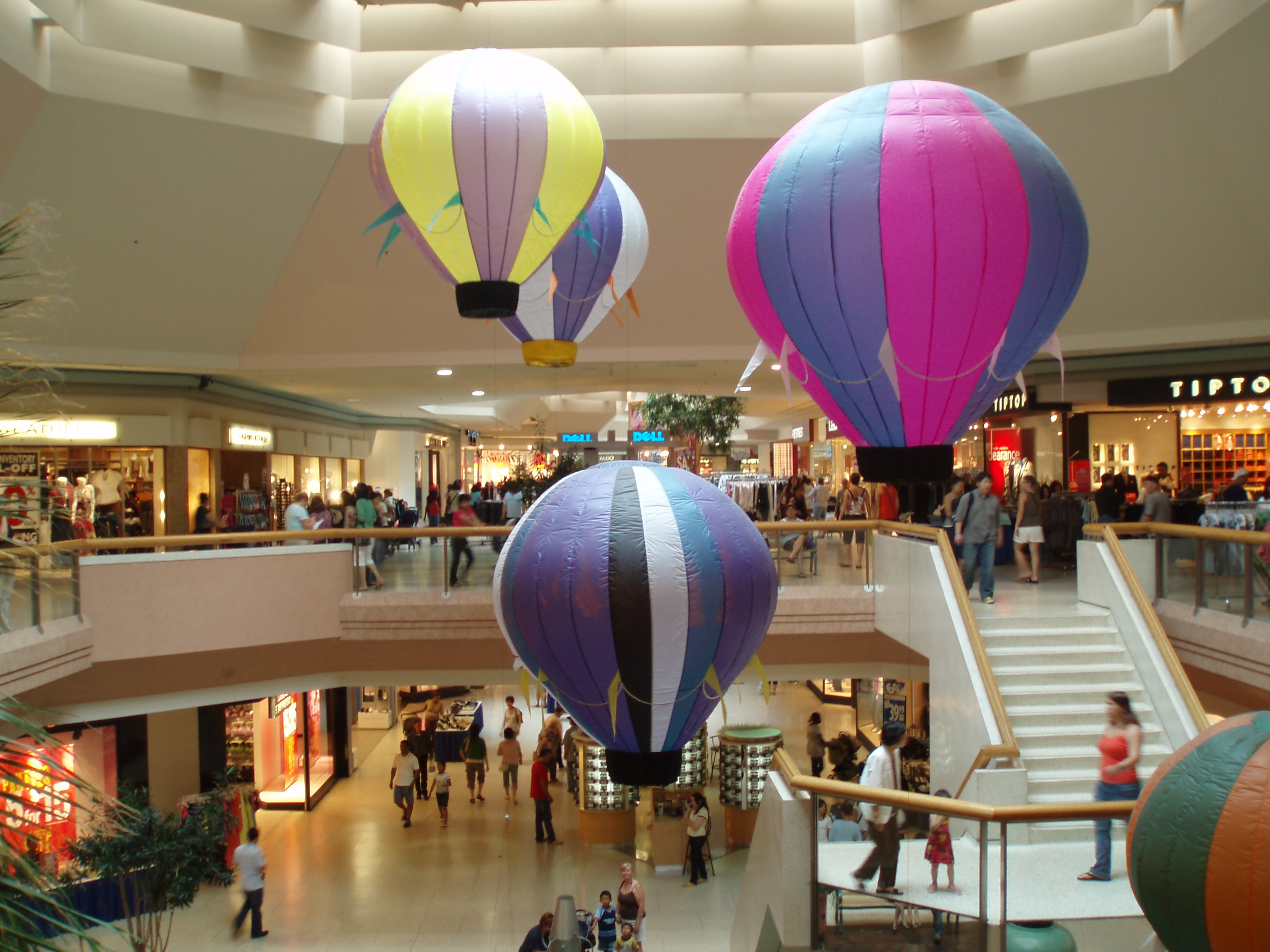 Hot air balloons, continuously rising and falling, at Scarborough Town Centre.